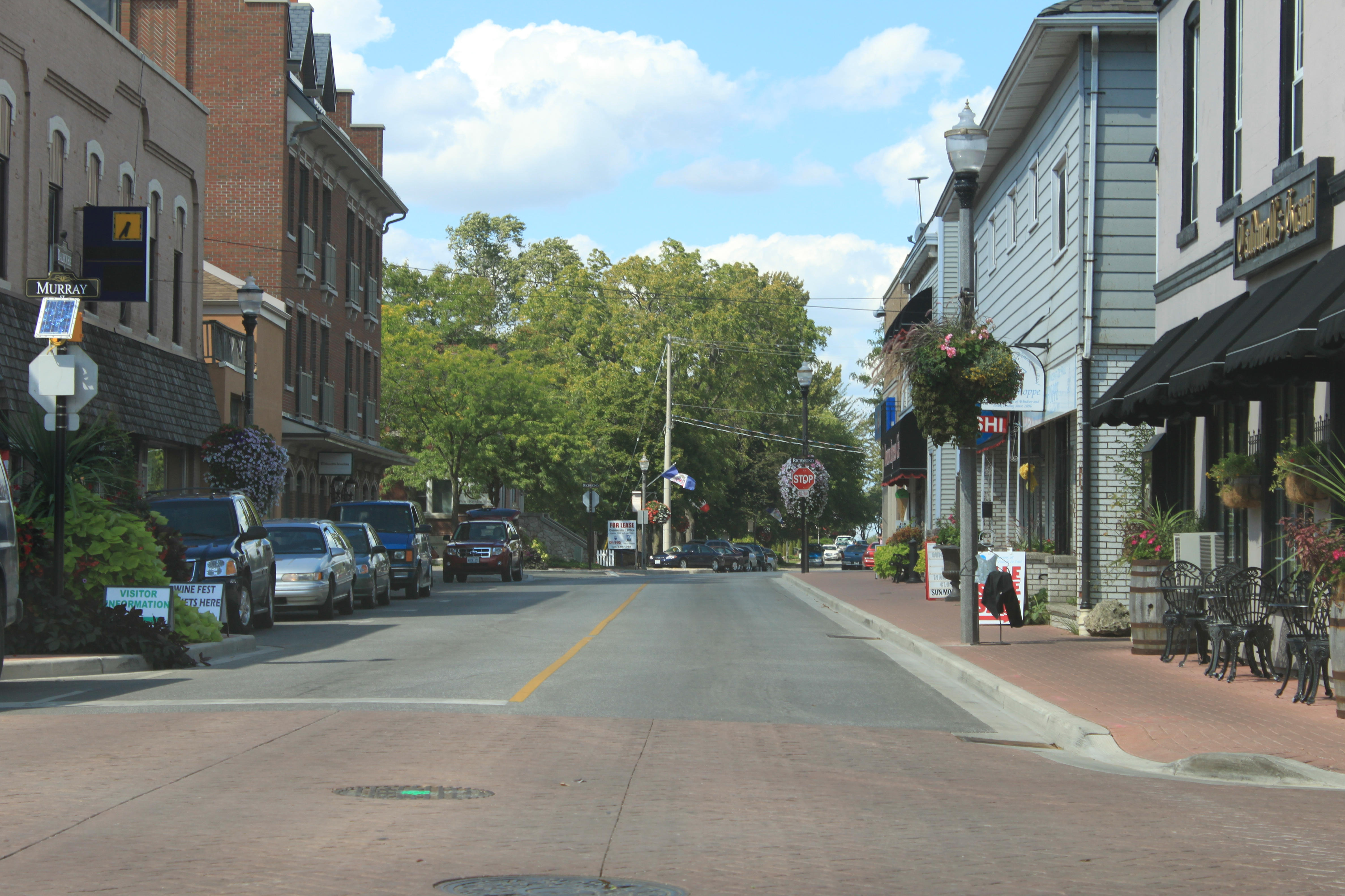 Amherstburg Ontario, Dalshousie Street between Murray and Richmond Streets